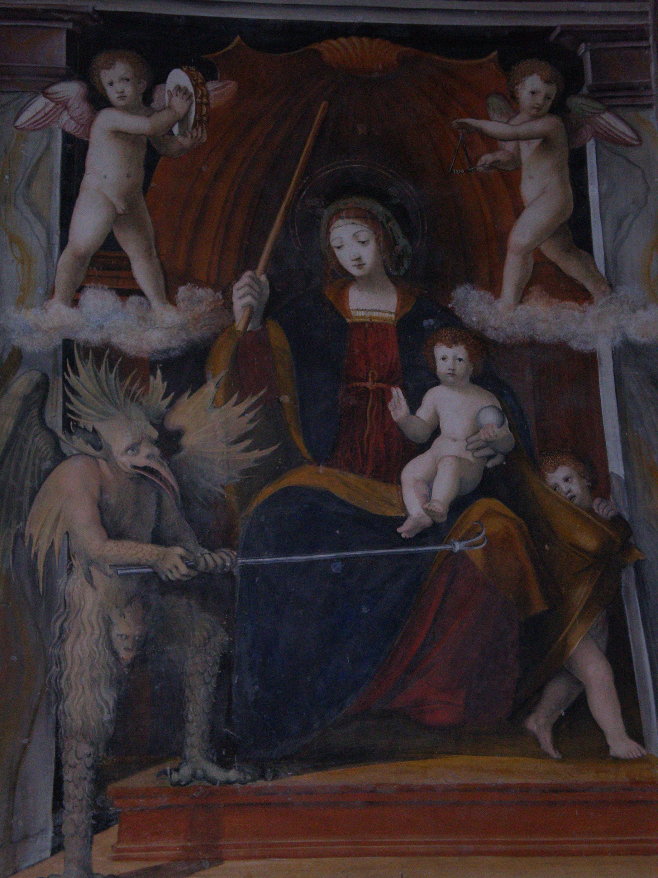 Fresco, called "Madonna del Cifulet" in the church of Santa Maria delle Grazie in Gravedona (Como)